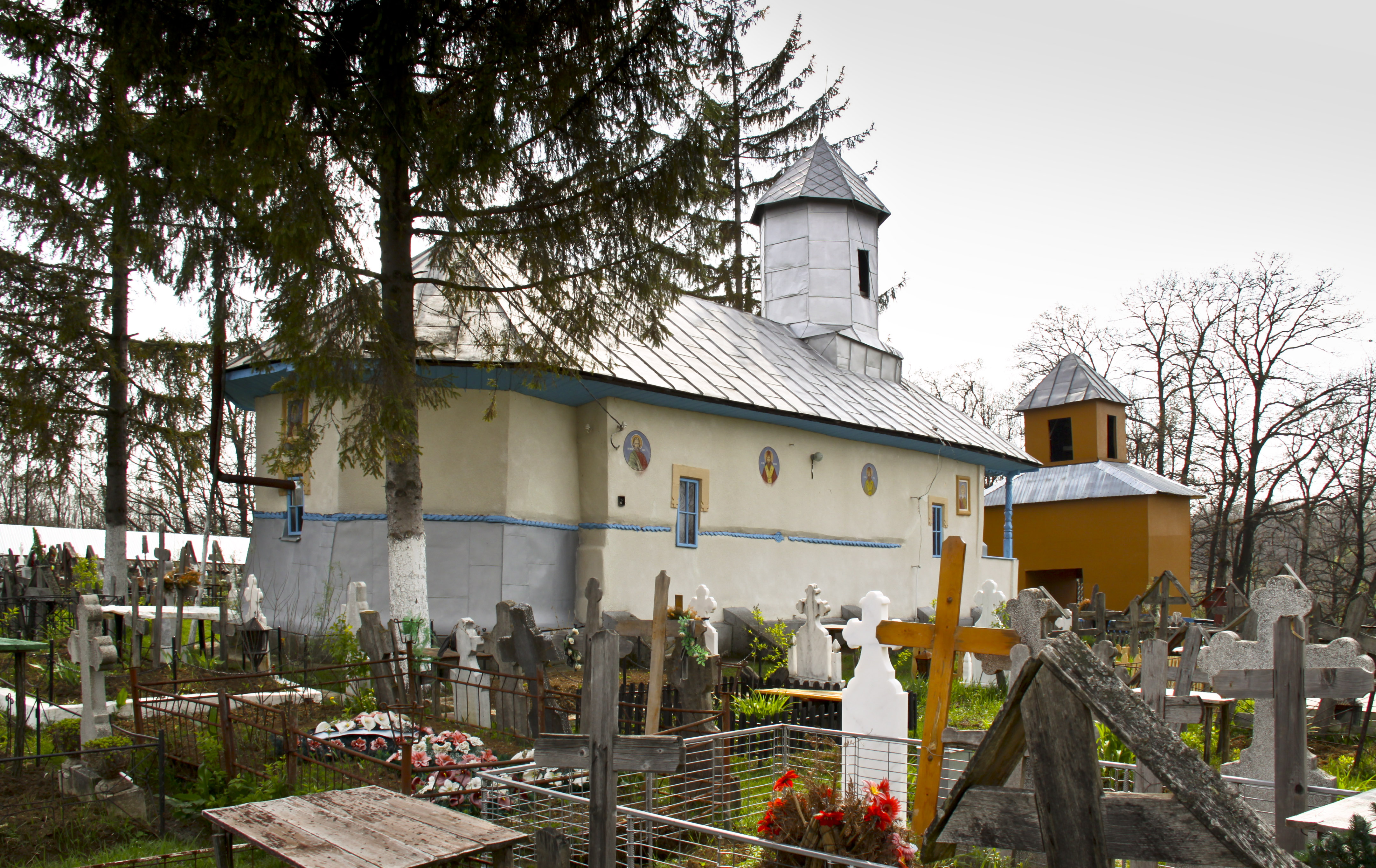 Gojgărei, Olt county, Romania: the wooden church, North-East side.